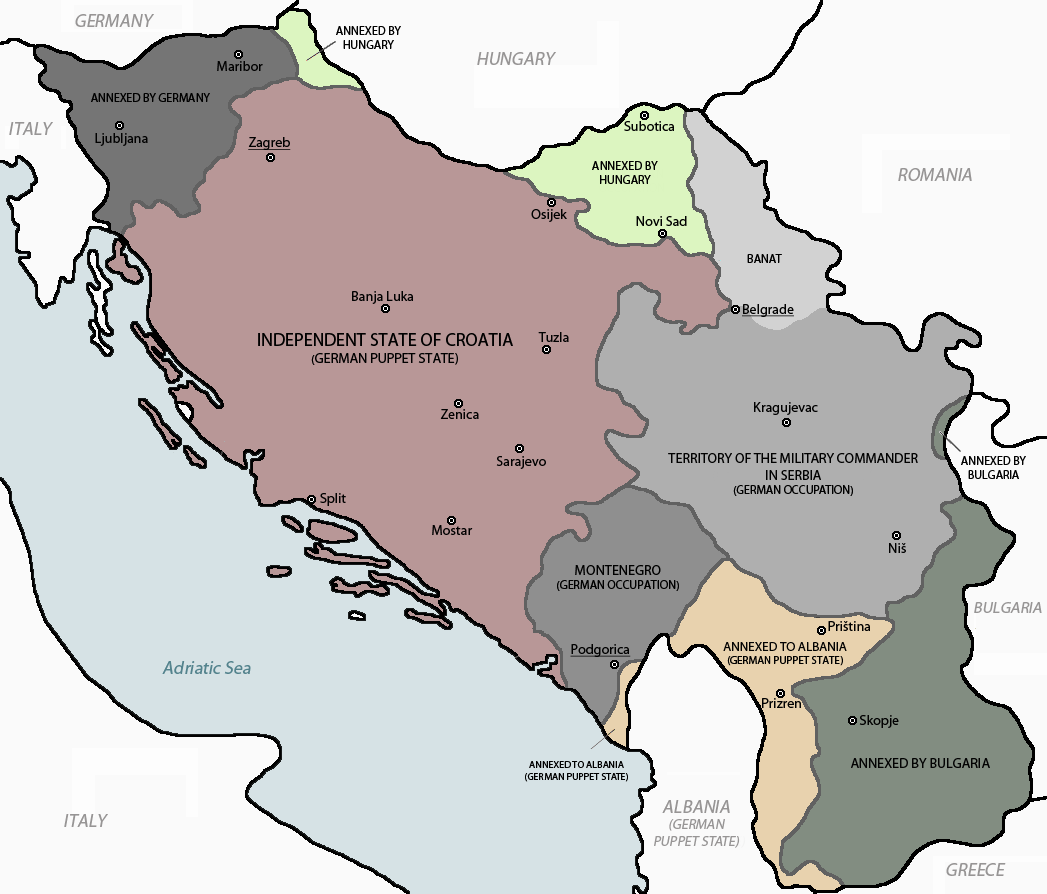 Axis occupation and partition of Yugoslavia in World War II. Srpskohrvatski / српскохрватски: Osovinska okupacija i podijela Jugoslavije u Drugom svijetskom ratu.